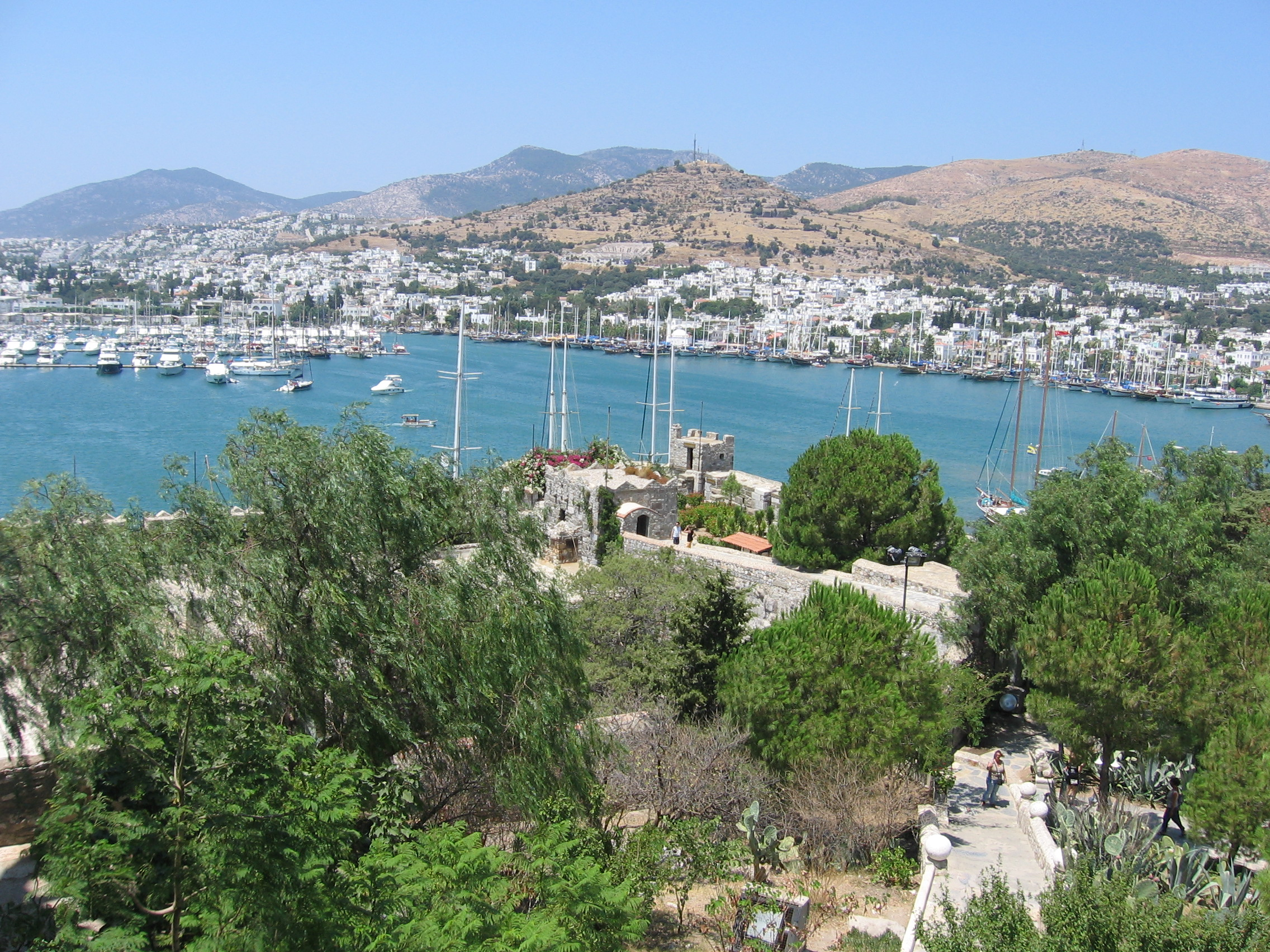 Garden in castle of St.Peter, bay, marina in Bodrum, Turkey